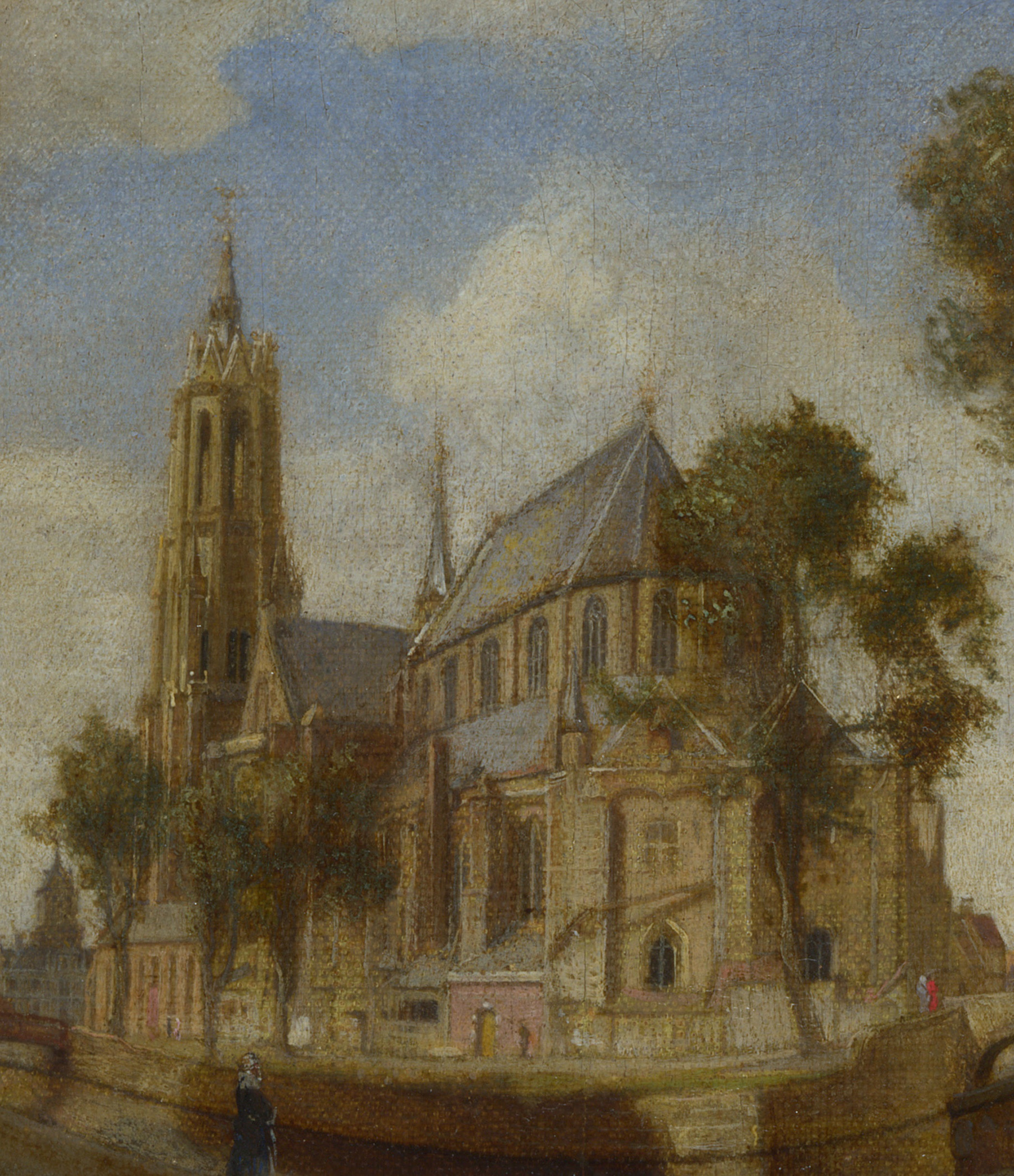 The Nieuwe Kerk of Delft in the Fabritius-painting View of Delft.